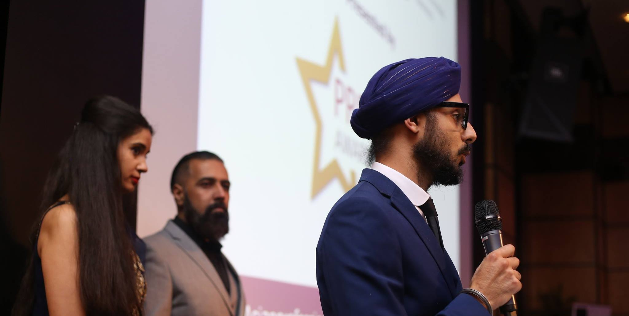 Param Singh MBE speaking at an Awards ceremony